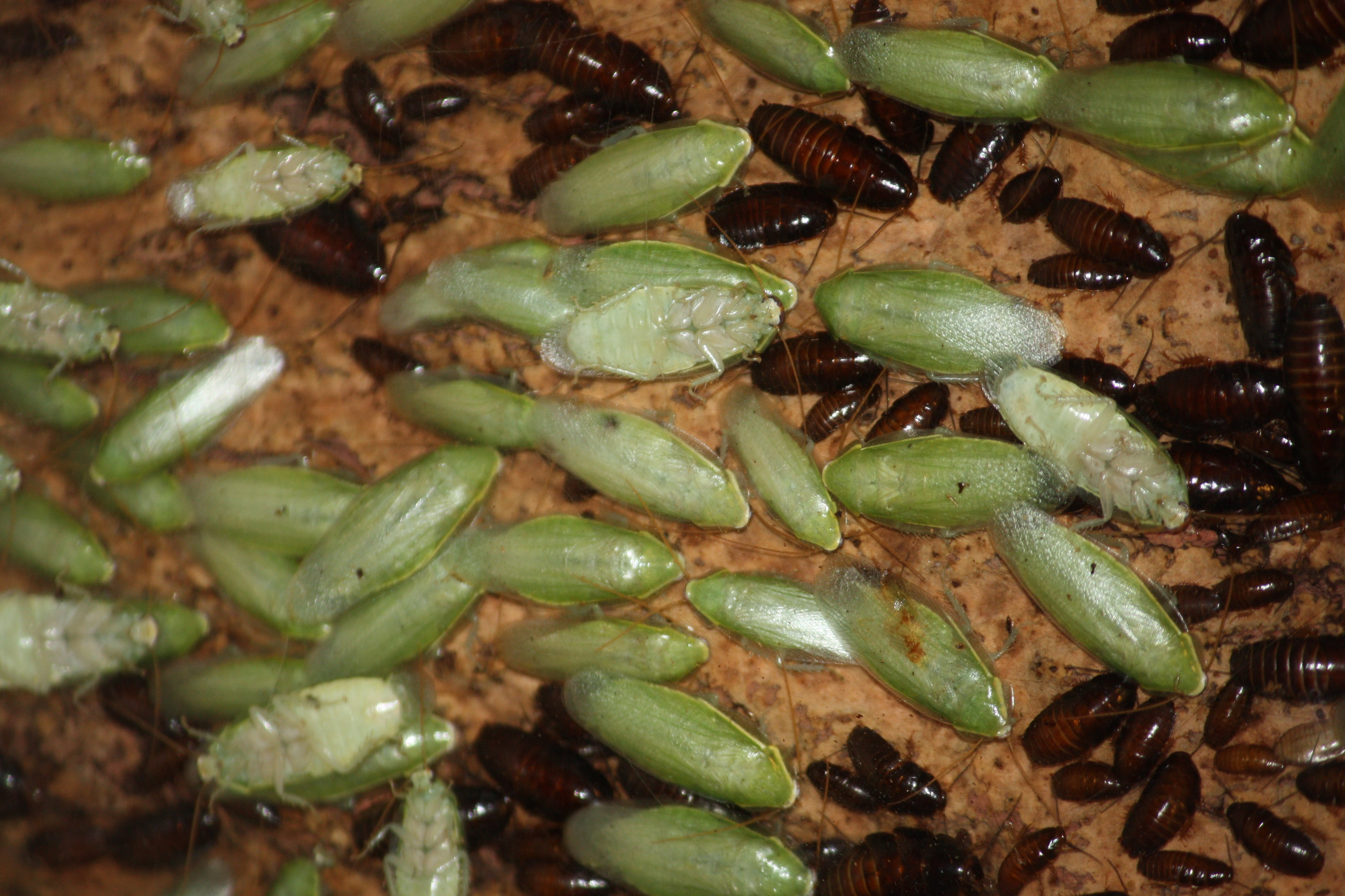 Green Leaf Cockroach Panchlora nivea at Cincinnati Zoo